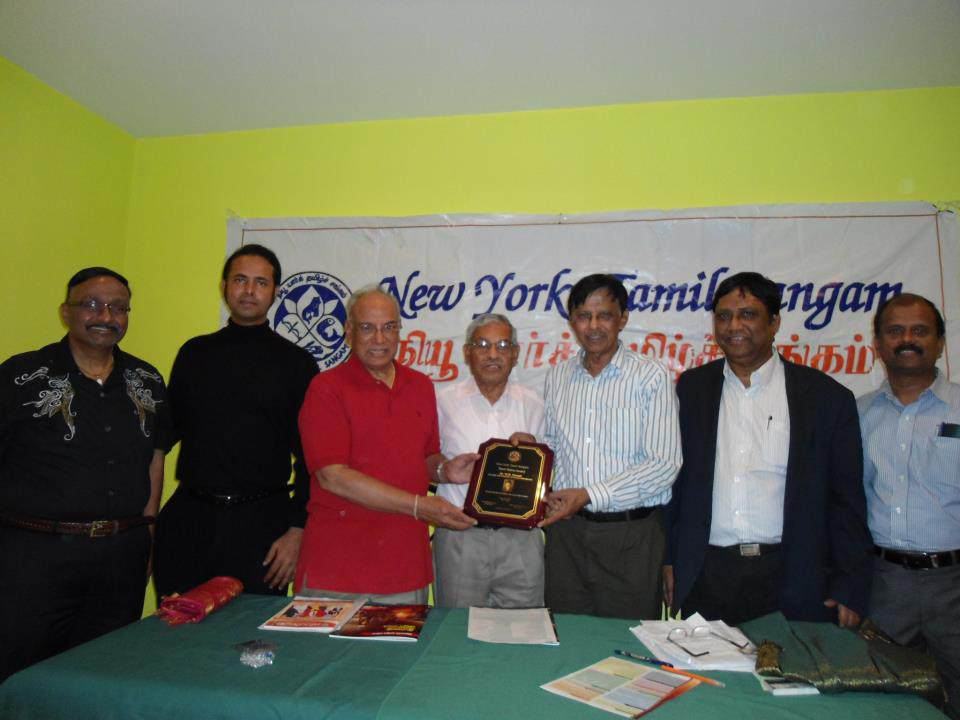 40 year old New York Tamil sangam hanoured M. B. Nirmal with Tamil Ratna Award